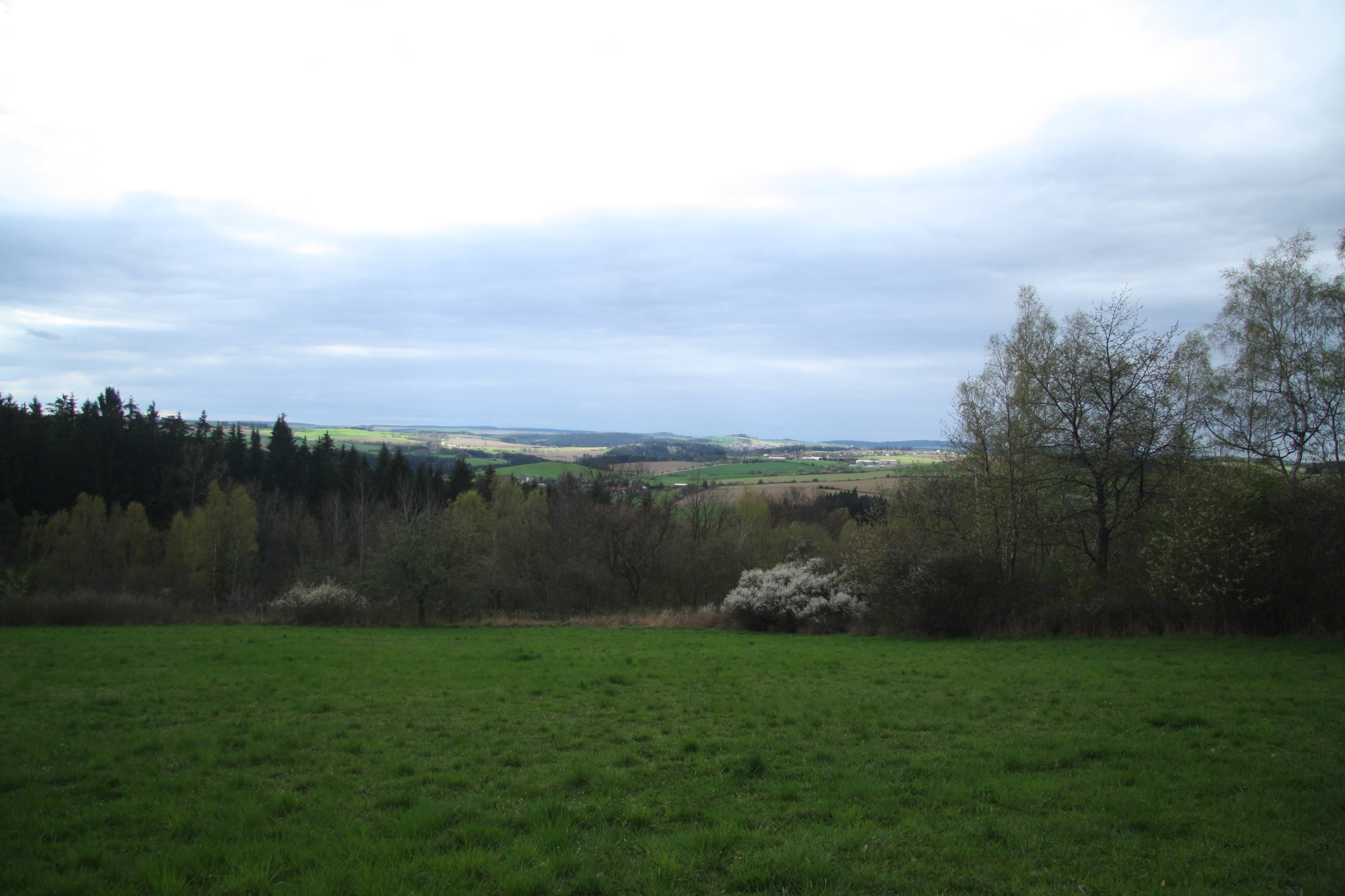 Řehořovská pahorkatina near Vržanov, Kamenice, Jihlava District.